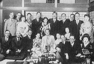 Former Prime Minister Mitsumasa Yonai (1880–1948, center) and and his former staff at their reunion.